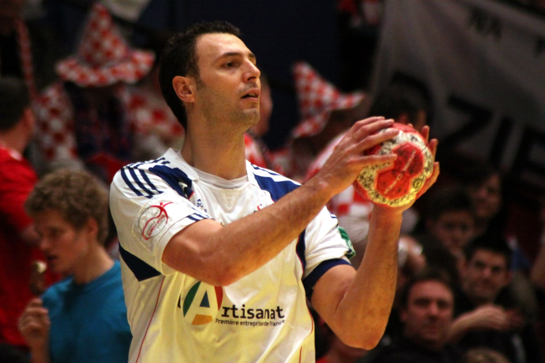 Jérôme Fernandez (BM Ciudad Real), France national handball team